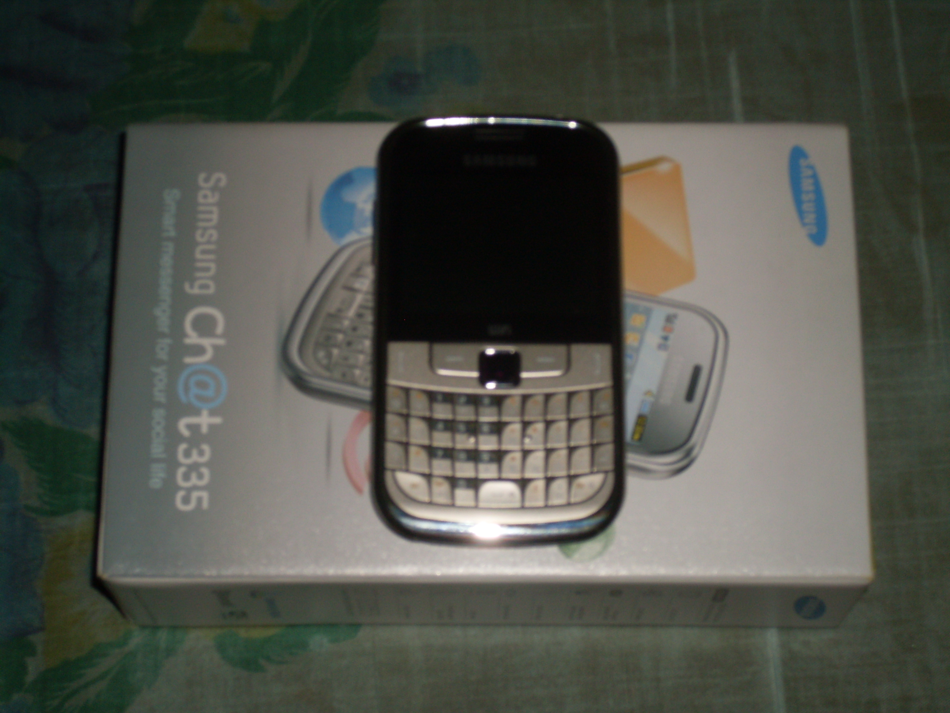 Samsung Ch@t 335 (Samsung GT-S3350).